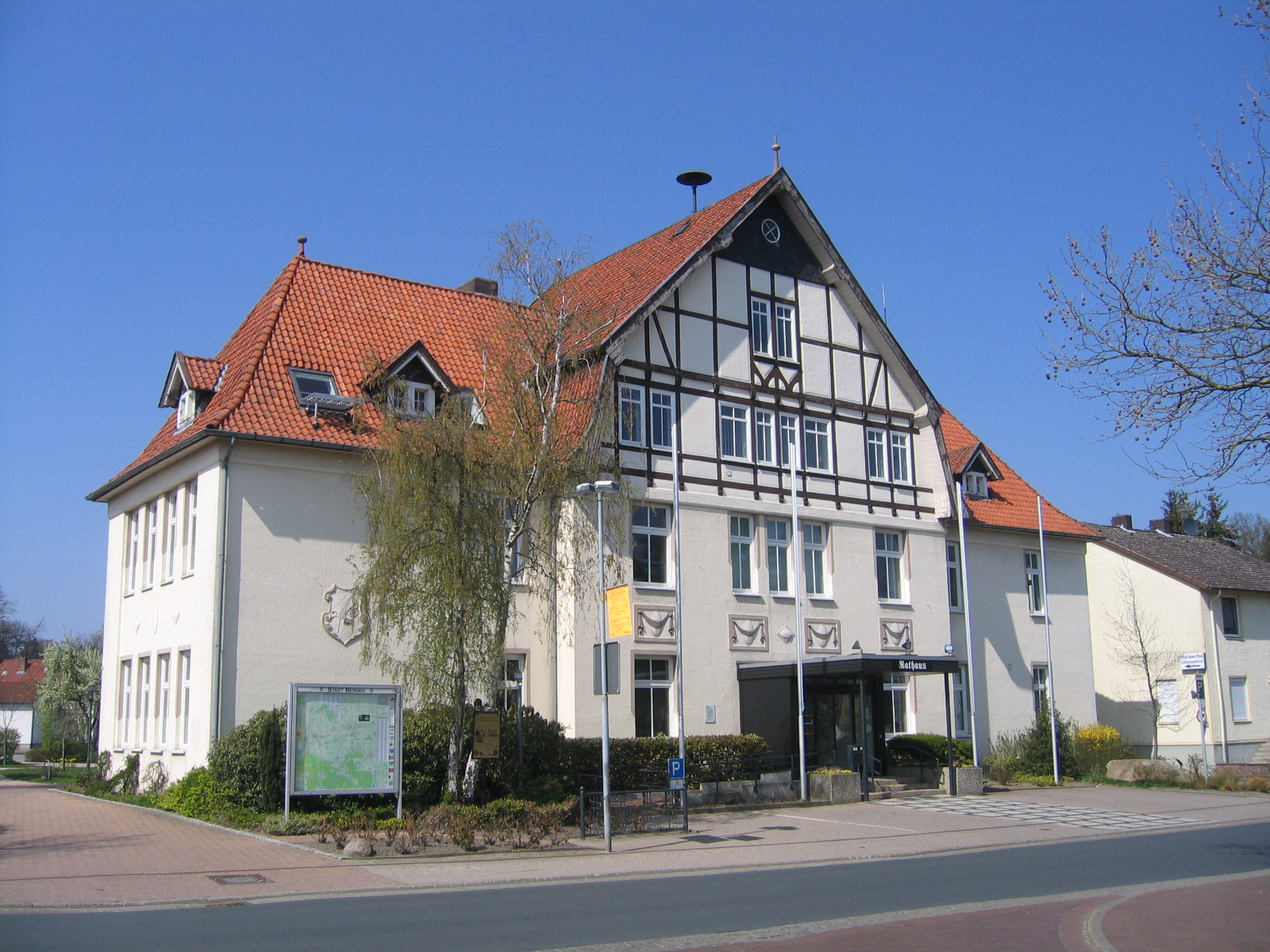 Bergen town hall, Lower Saxony, Germany.